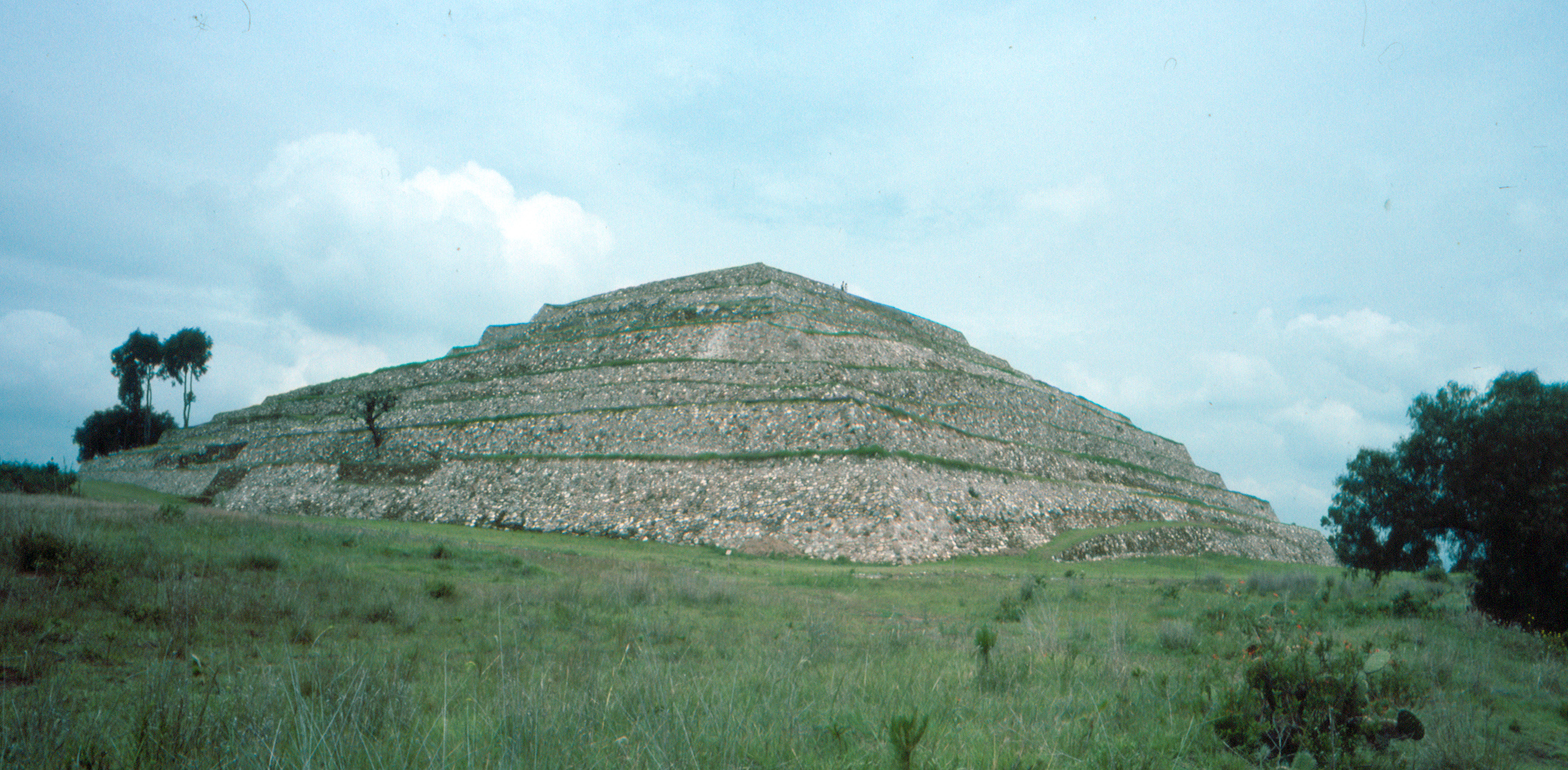 Xochitecatl, Tlaxcala, Mexico: main pyramid